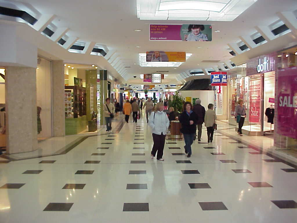 Some of the shops located inside Westfield Bay City.